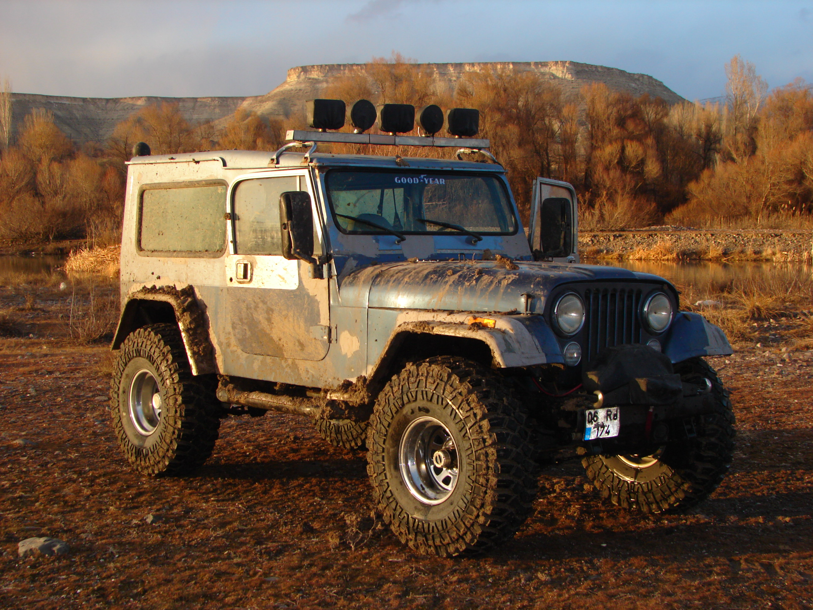 Offroad moving Jeep with splashed mud.